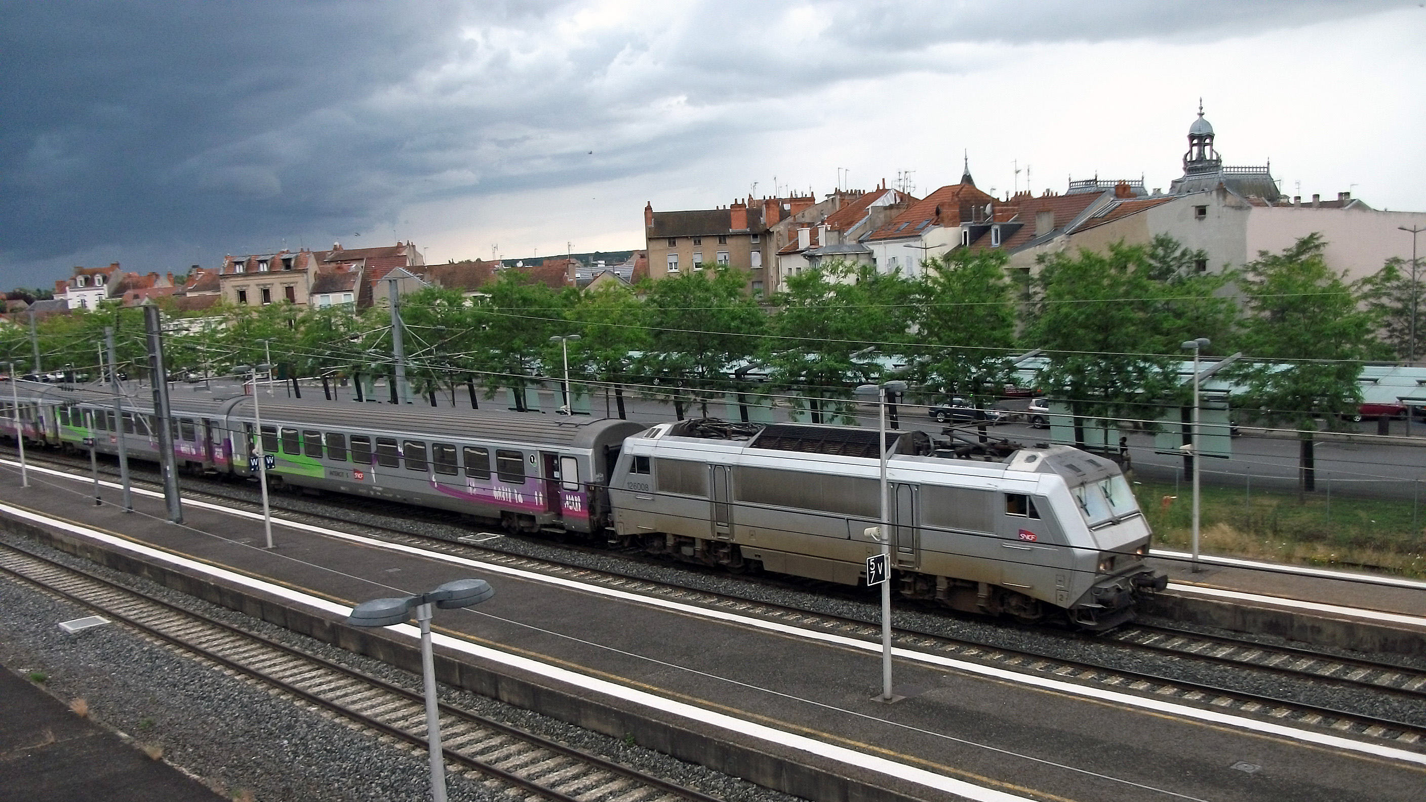 SNCF BB 26008 in gray (ghost) livery pulling the INTERCITES 5978, unable to go to 200 km/h (because some coaches are limited to 160 km/h), arriving in Vichy railway station, platform A. This train continues to Paris-Bercy.